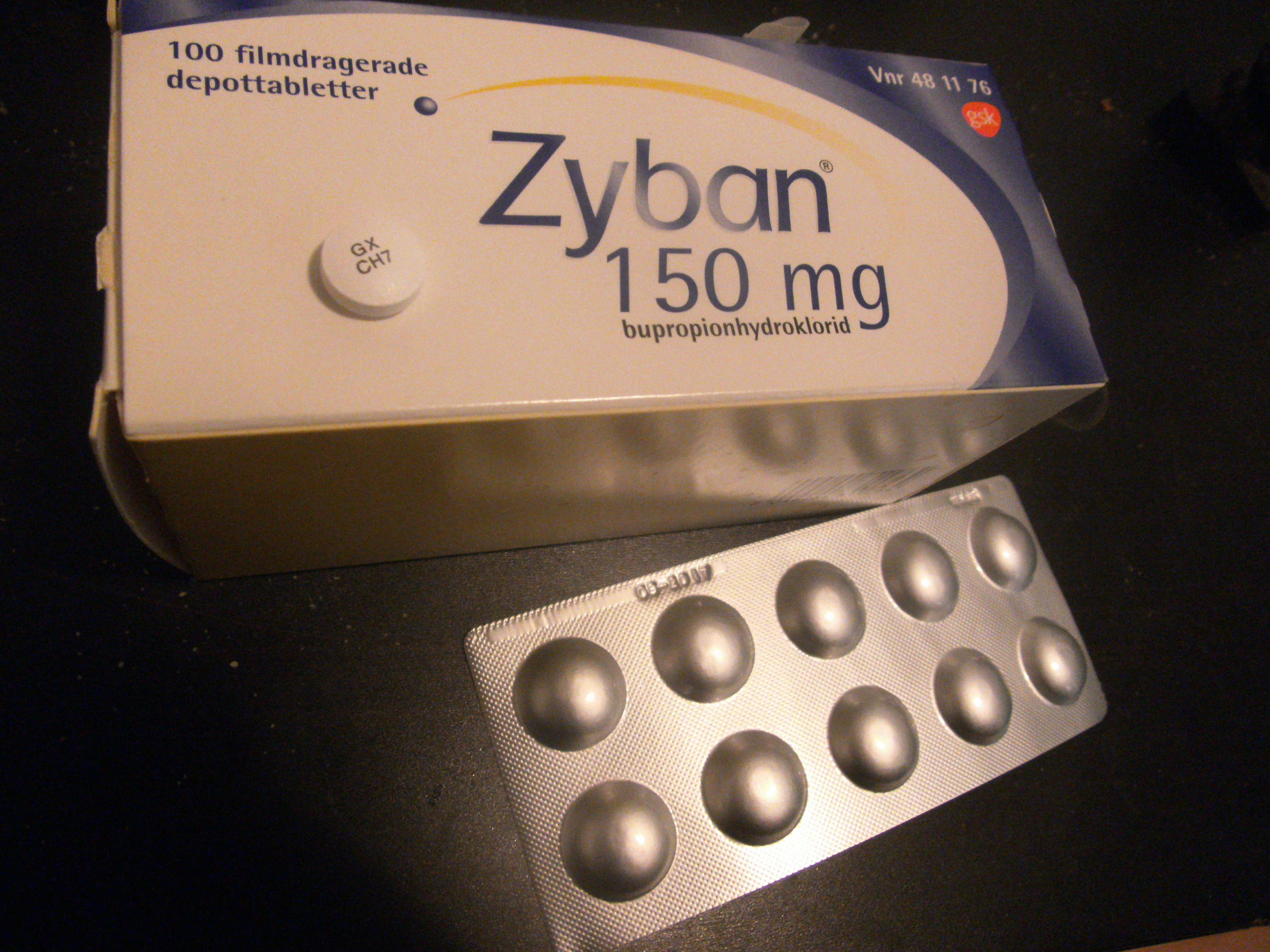 Zyban, buproprion. Purchased in Sweden.